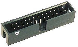 Box header with indexing channel